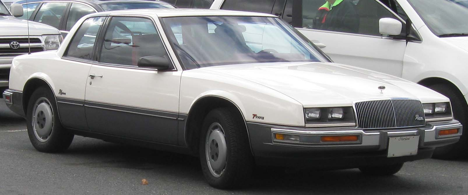 1986-1988 Buick Riviera photographed in Cloverly, Maryland, USA.